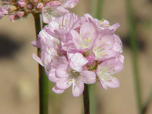 Species: Armeria rhodopaea Family: Plumbaginaceae Image No. 1